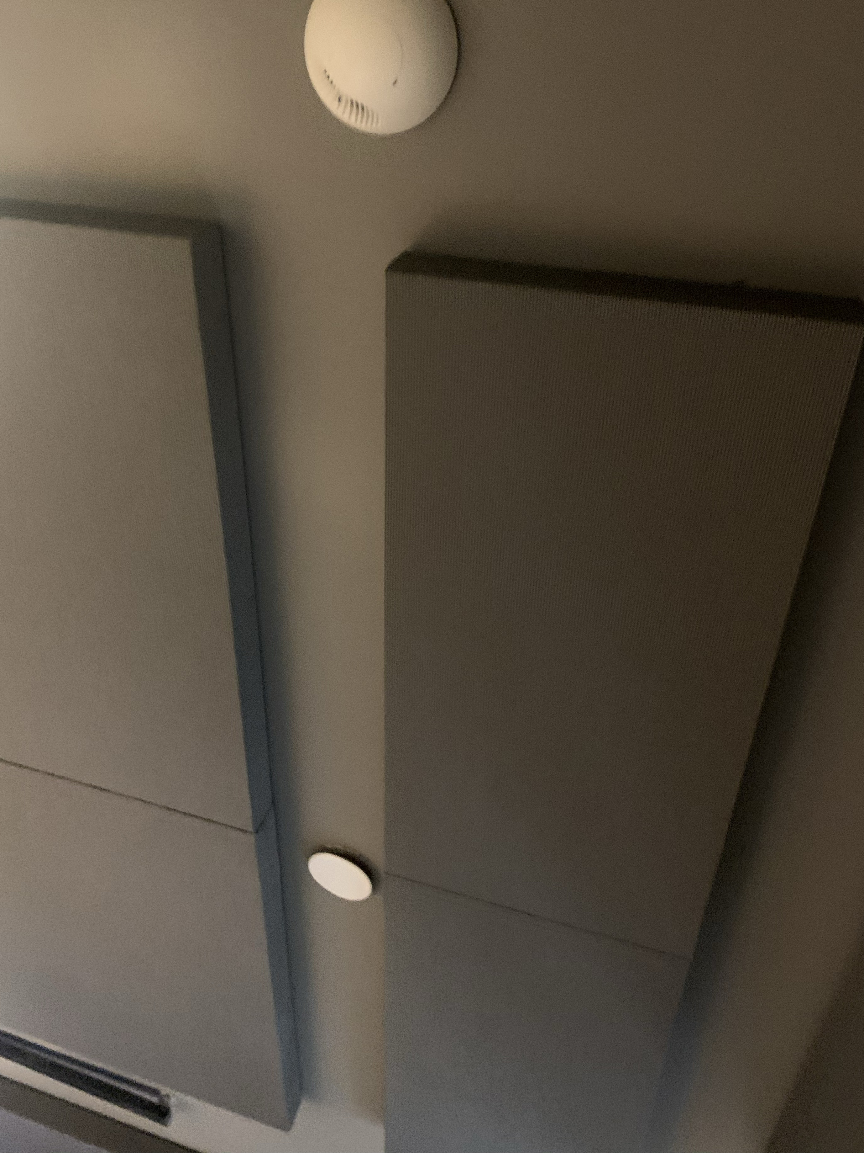 Acoustic panels installed on a conference room ceiling